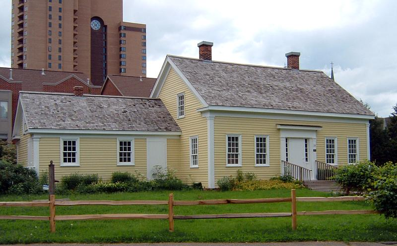 House of Ard Godfrey in Minneapolis, Minnesota, the oldest surviving dwelling in the city (built ca. 1848).